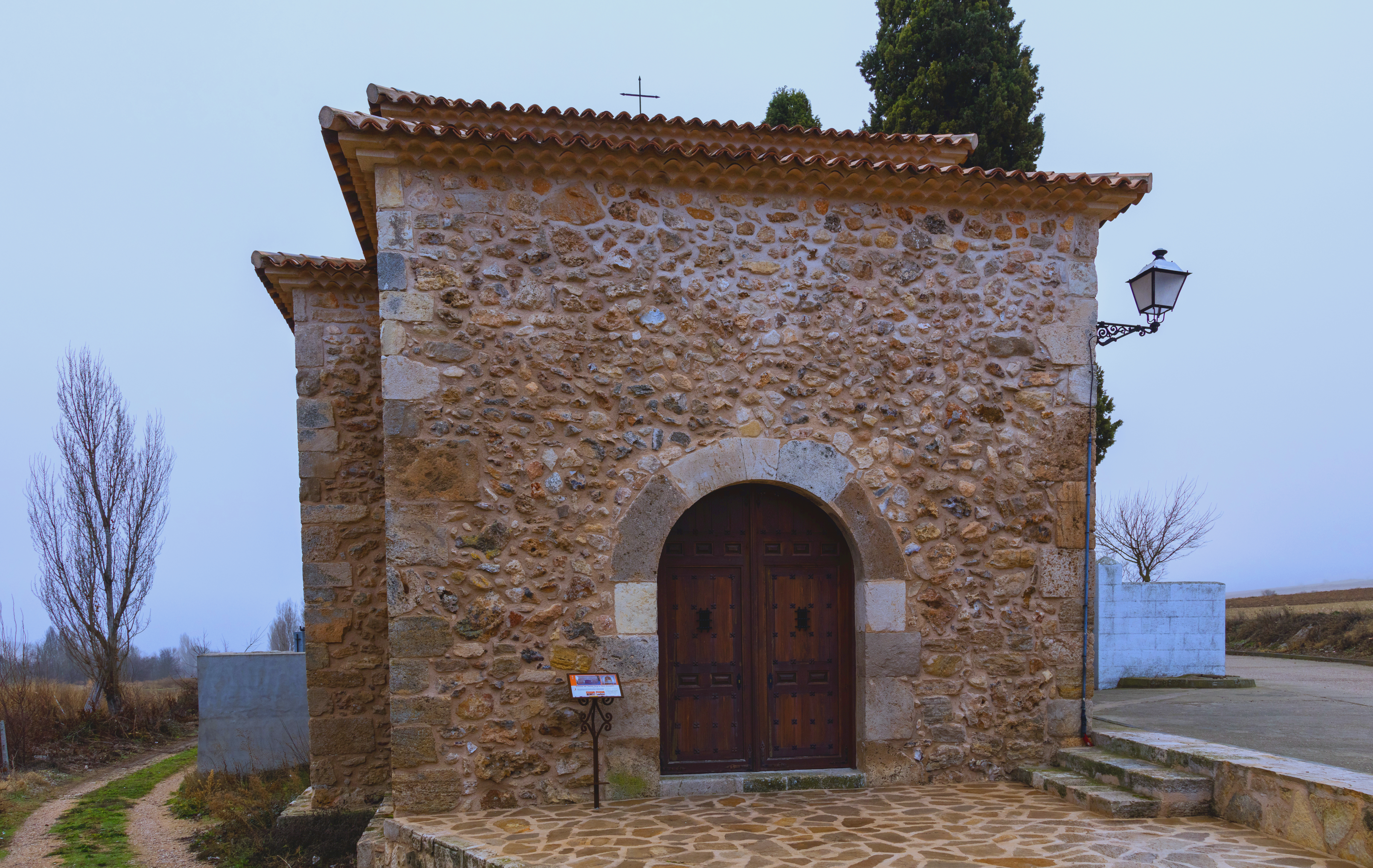 Hermitage of St Ana and St Joaquin, Valdeconcha, Guadalajara, Spain